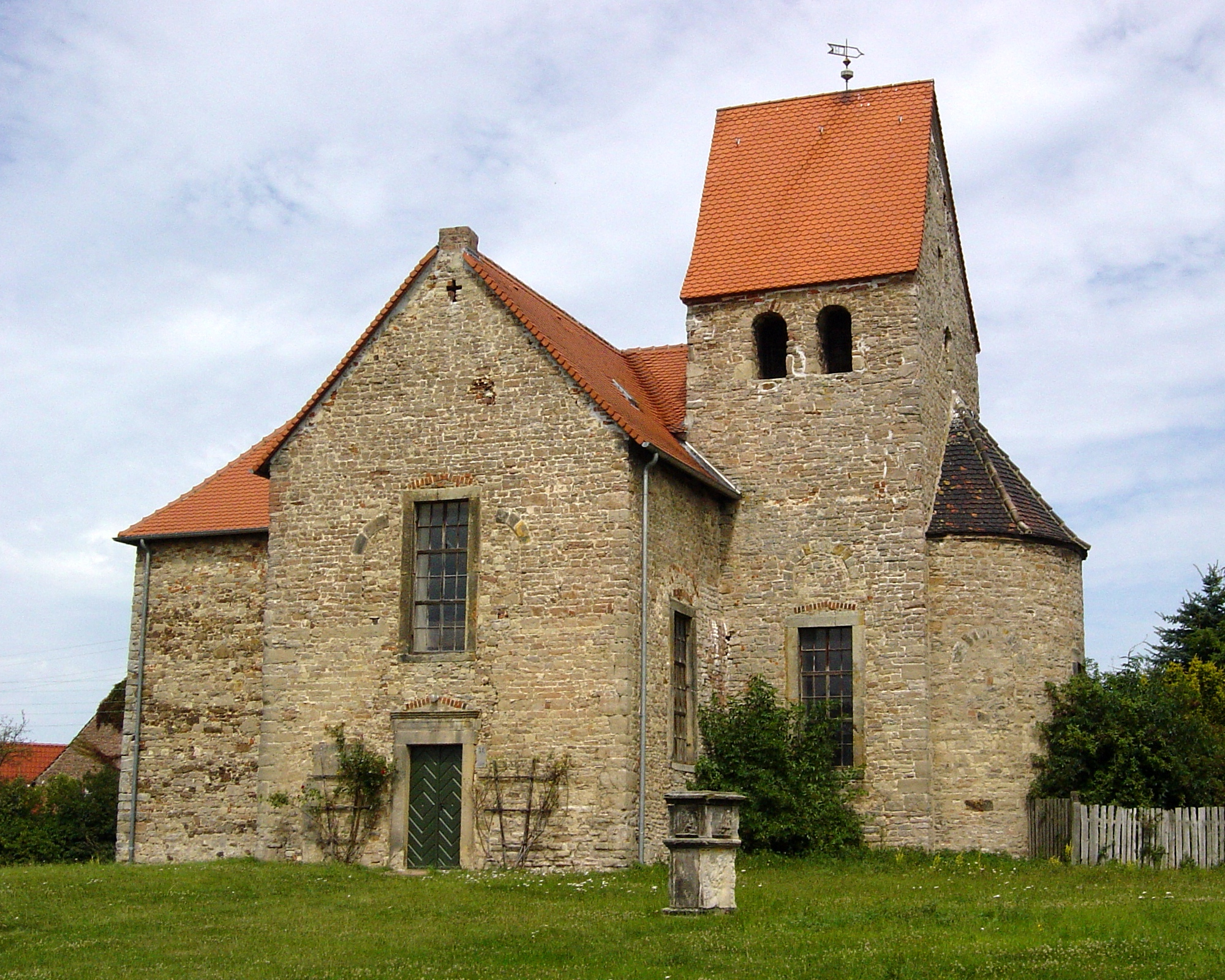 Protestant Salvator Church in Ivenrode, Germany